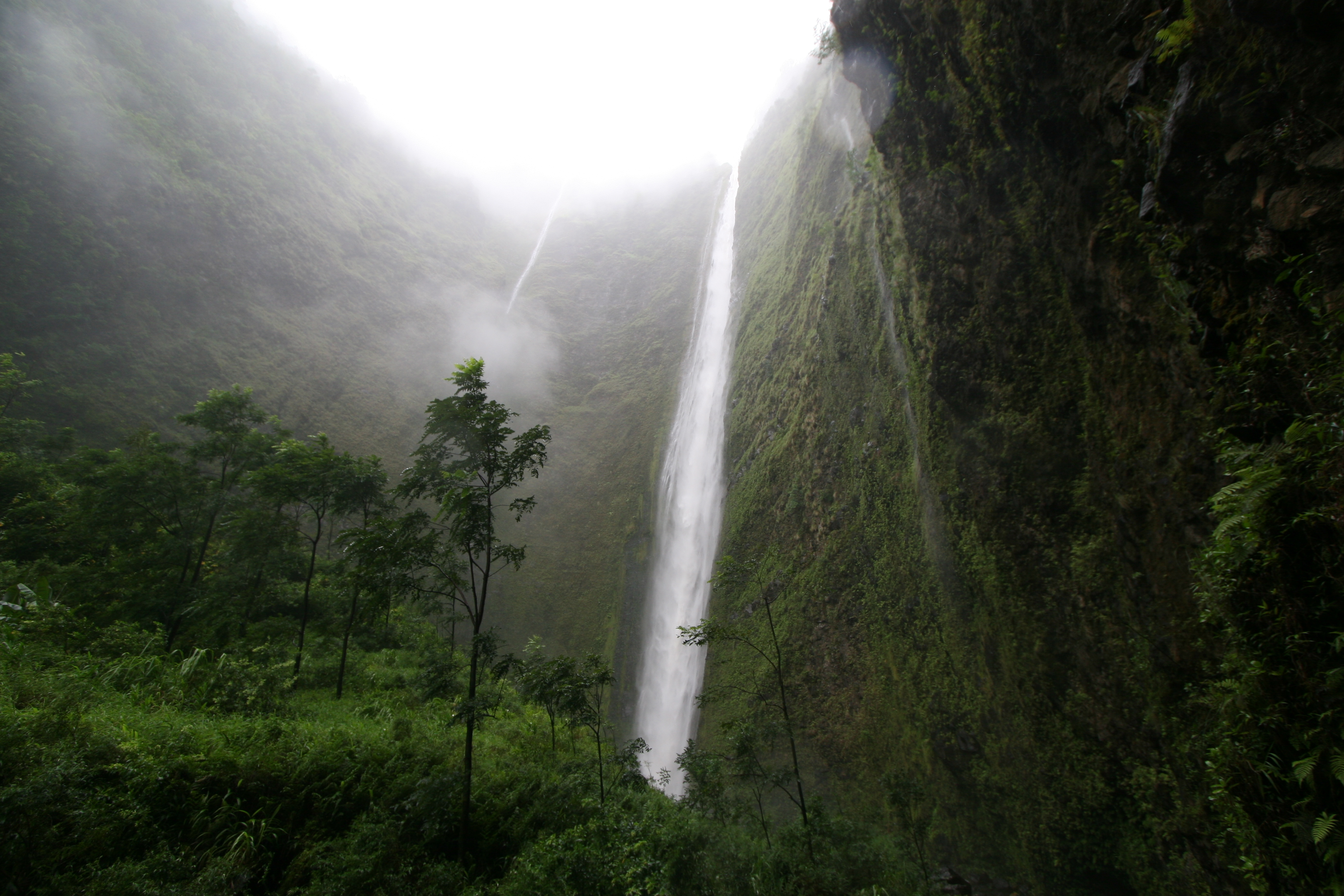 Hi'ilawe waterfall at the back of the Waipio Valley, Hawaii